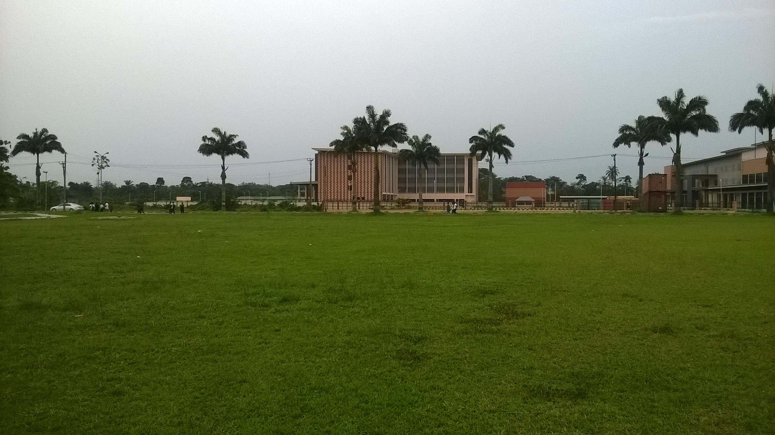 This is an image with the theme "Play" from: Nigeria